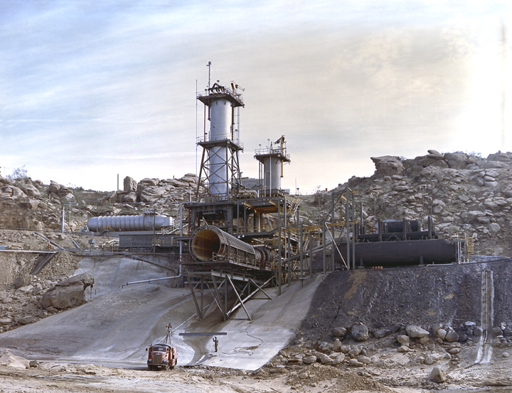 This image depicts an overall view of the vertical test stand for testing the J-2 engine at Rocketdyne's Propulsion Field Laboratory, in the Santa Susana Mountains, near Canoga Park, California. The J-2 engines were assembled and tested at Rocketdyne under the direction of the Marshall Space Flight Center.